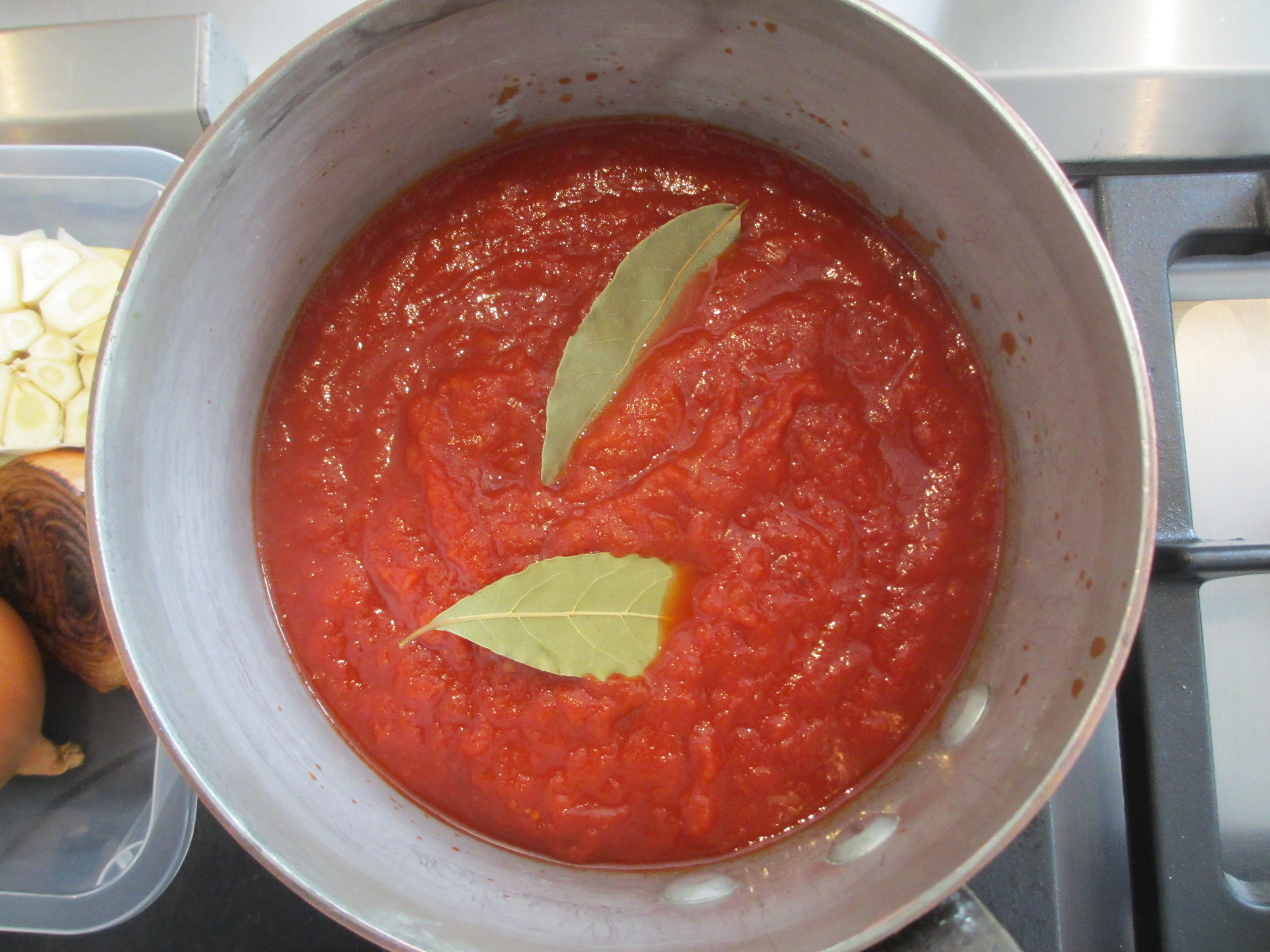 LaBase is gemakkelijk te gebruiken in iedere keuken, voor bv. soepen, sauzen, dressings, chutneys, maar zeker ook voor iets culinair. Dit product kent 1001 mogelijkheden en is afgesteld op de wensen van iedereen: of u nu iets authentieks of culinair wilt maken.